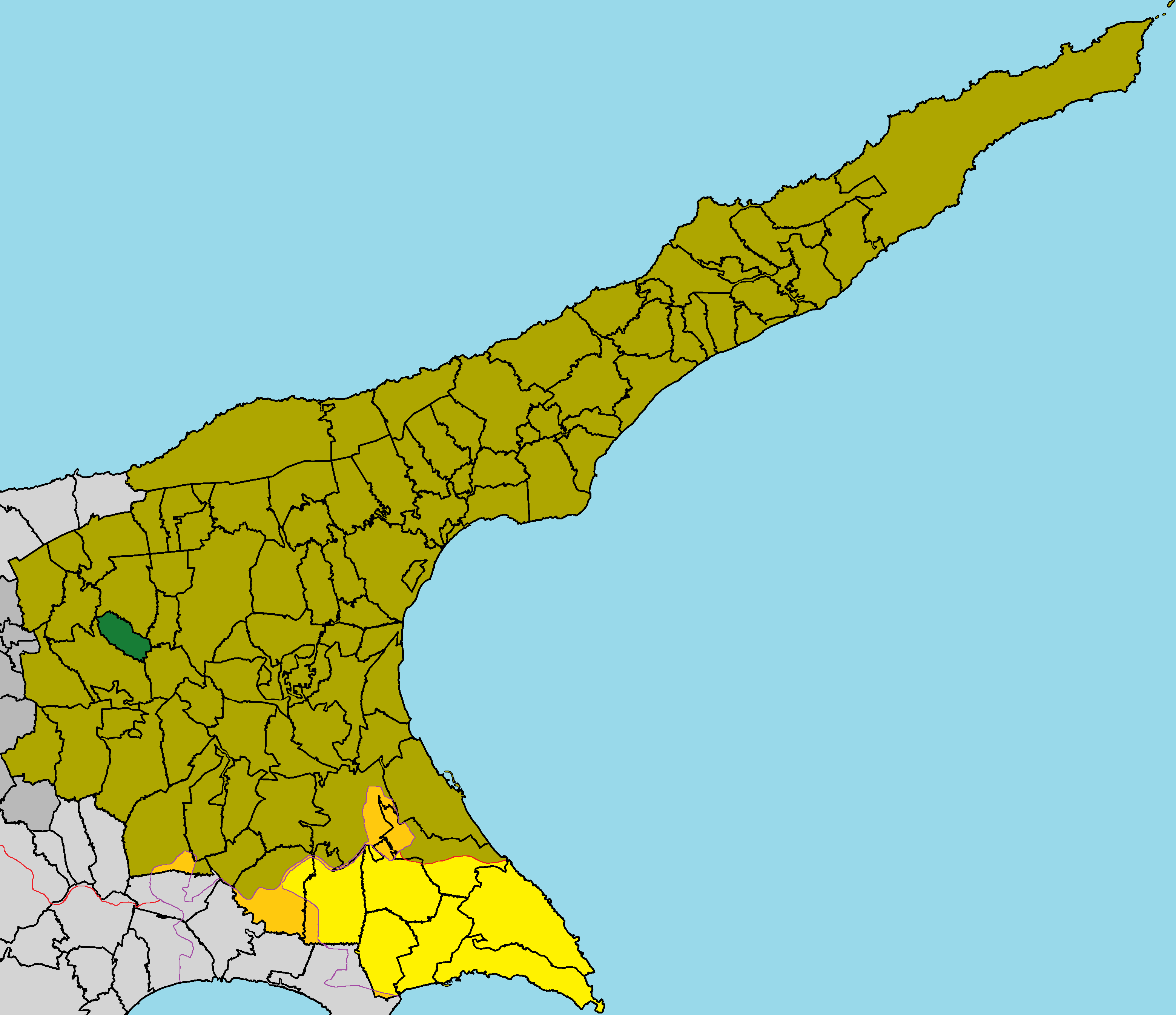 Vitsada in Famagusta District (de jure).